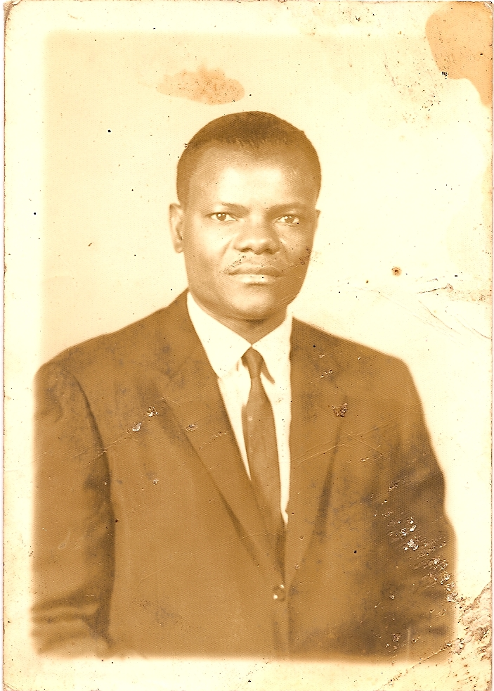 The first clergy to be elected into the Kenyan national parliament assembly in 1970